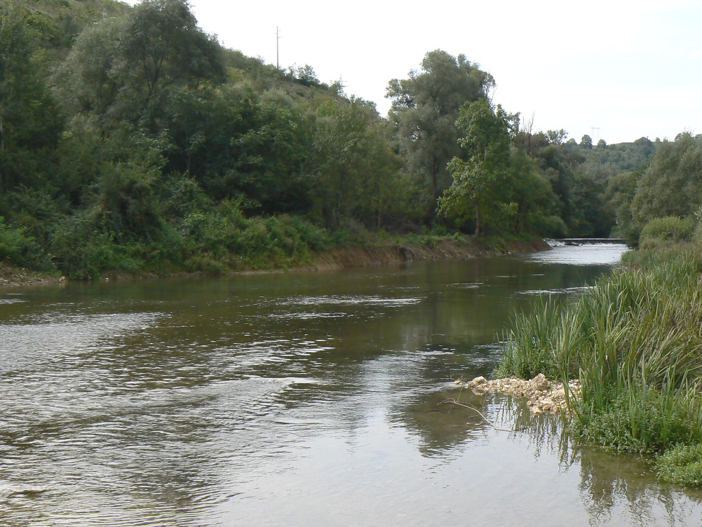 River Zlatna Panega near village Rumyantsevo, Bulgaria